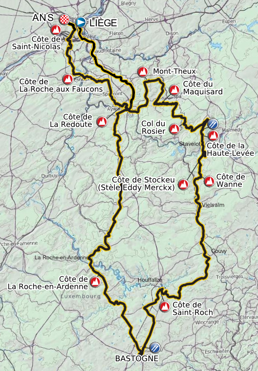 Route Liège-Bastogne-Liège 2012